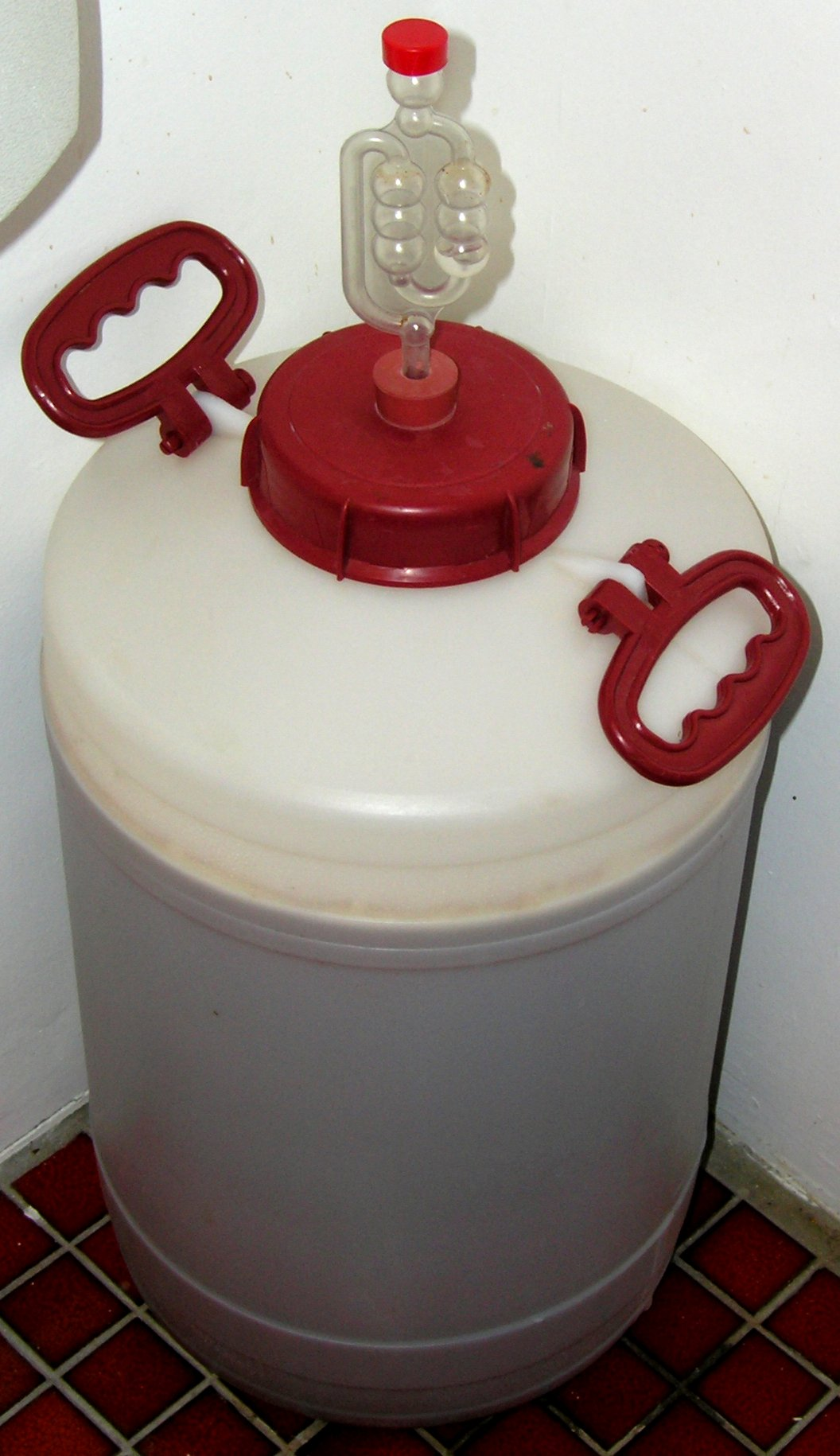 Homebrewing fermenter, with fermentation lock. Shermozle 15:58, 8 January 2006 (UTC) I've had a number of enquiries asking where I got this fermenter. It was included (filled with fermenting cider) when I went on a cider making course run by the Cheers homebrew shop in Surrey near London, UK. I've found an online store that seems to stock the same model. I have no connection with the shop other than being a satisfied customer. It was a good unit, easily sealed. Which was handy given my fermenter lived right next to the toilet in my tiny London flat. Shermozle 07:32, 8 September 2006 (UTC)